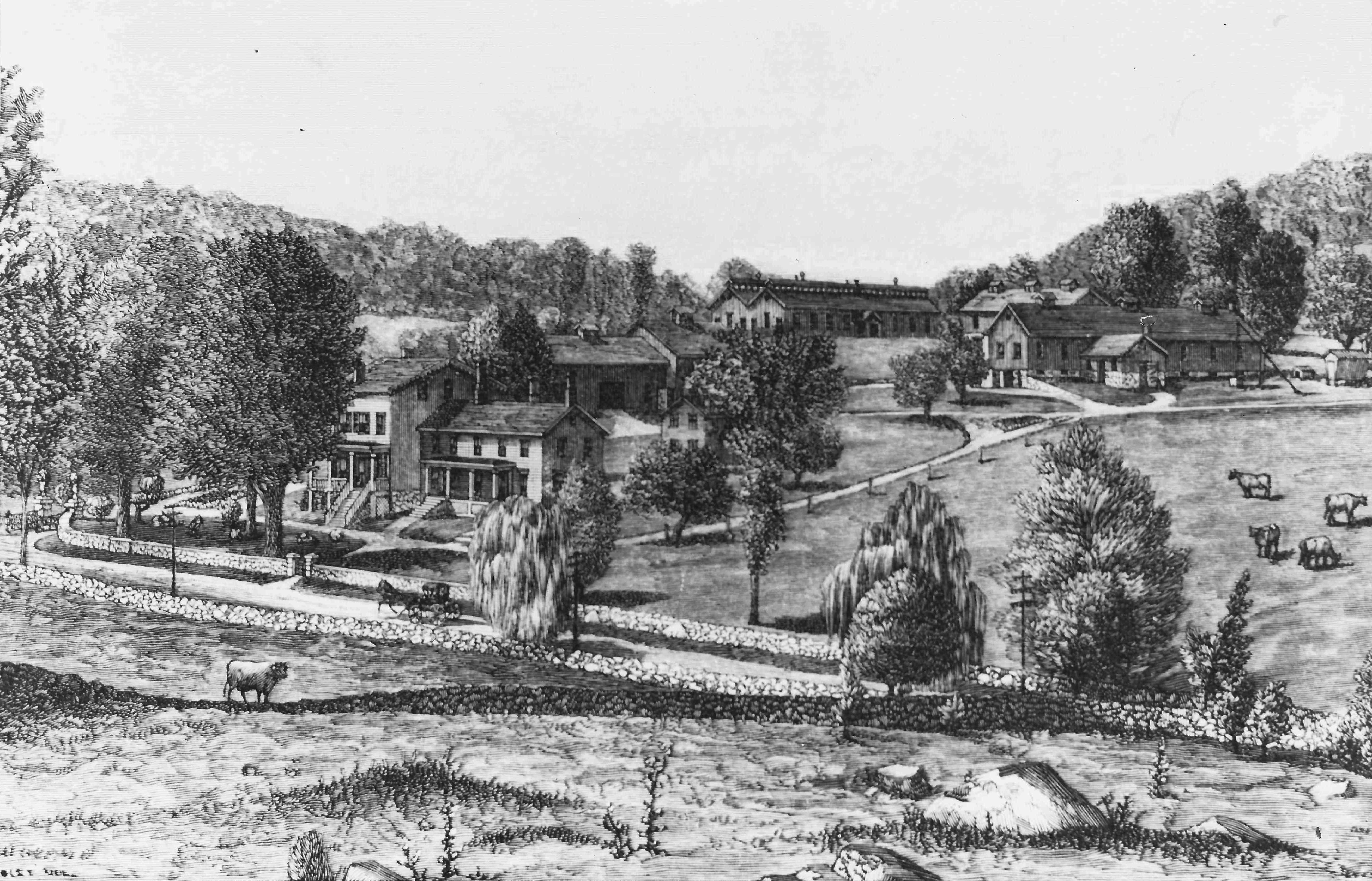 This is an image of Briarcliff Farm, James Stillman's property in Briarcliff Manor, New York.